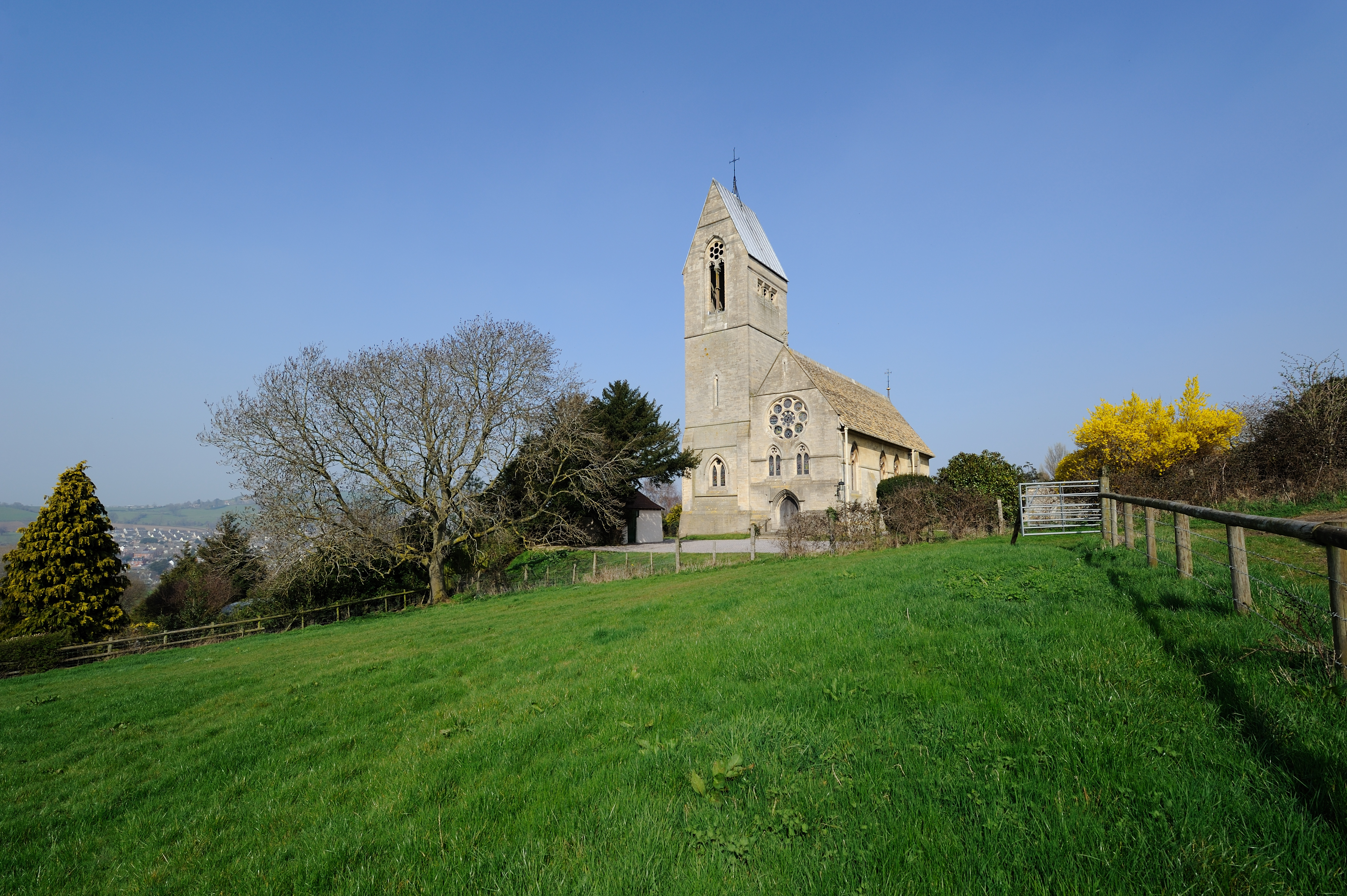 All Saints Church is the parish church for Selsley in Gloucestershire. Construction took place in 1861-62. The church contains William Morris's first commission for ecclesiastical stained glass. The distinctive saddleback tower is over a hundred feet easily catching the changing Cotswolds light on its French Gothic gables: the last of the great Cotswold wool churches, and the first to exhibit work of the English Arts and Craft movement. The church is Grade 1 listed by English Heritage who says that this church is one of George Frederick Bodley's most important early works and of great significance in the development of High Victorian architecture.